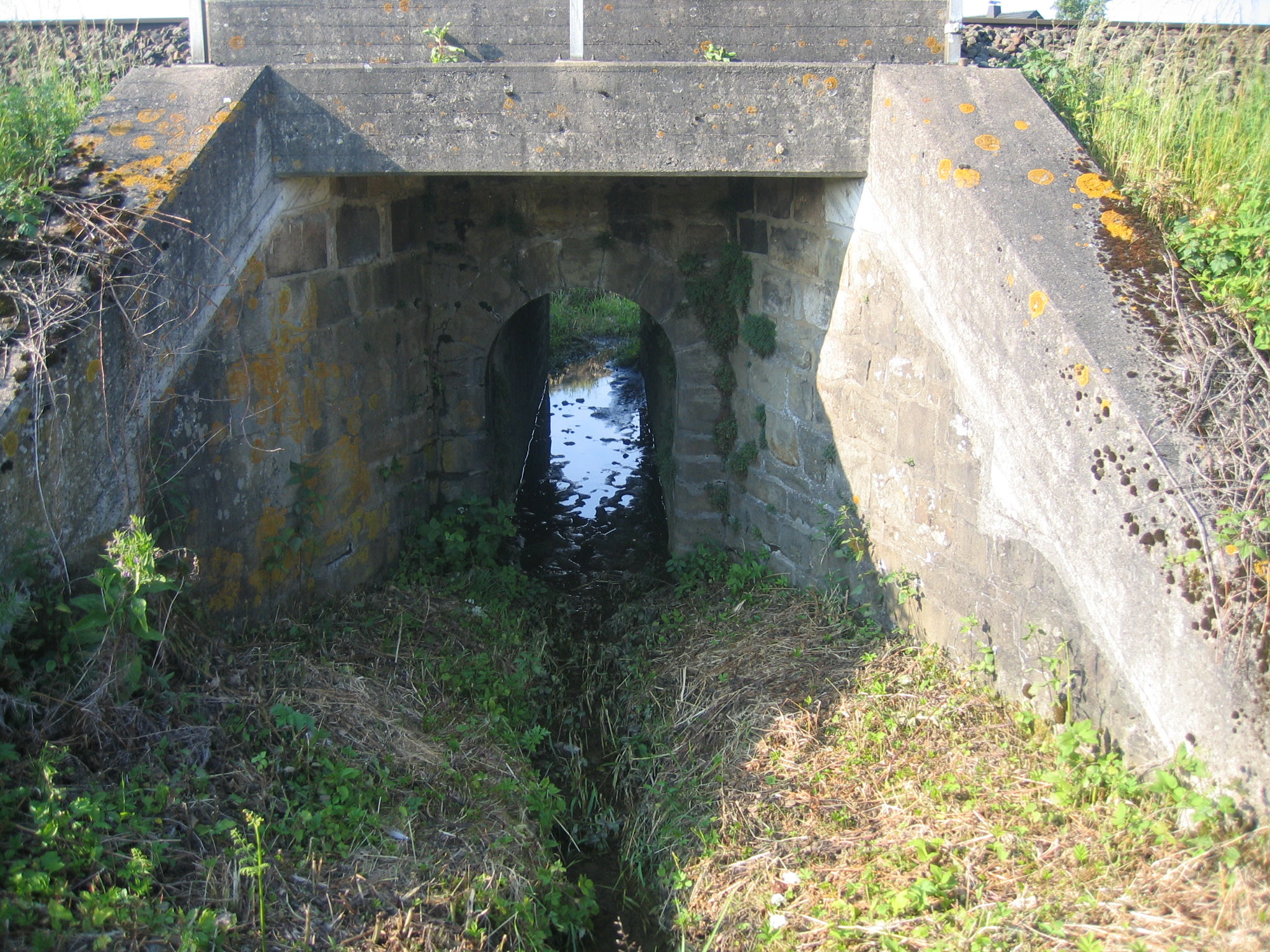 Bennier Graben river in Rödinghausen, District of Herford, North Rhine-Westphalia, Germany.